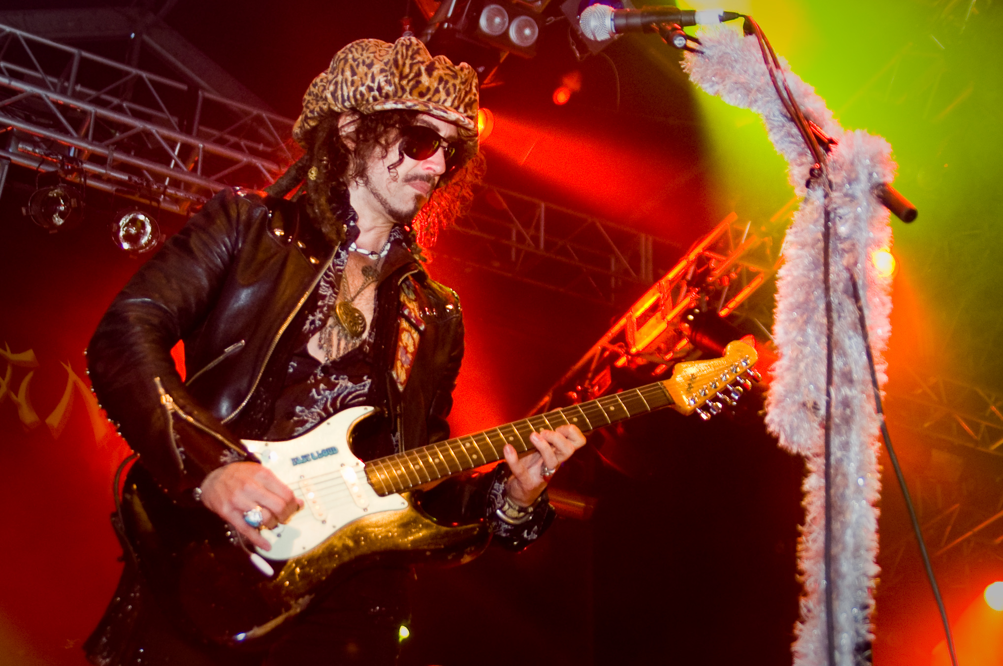 Conny Bloom the band Hanoi Rocks performing at the Ilosaarirock festival on the 11th of July 2008 in Joensuu, Finland.